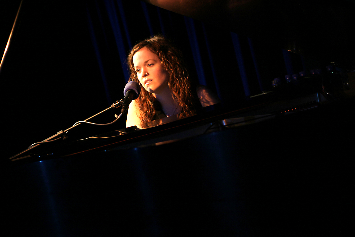 Allison Crowe - pre-concert, Munich.